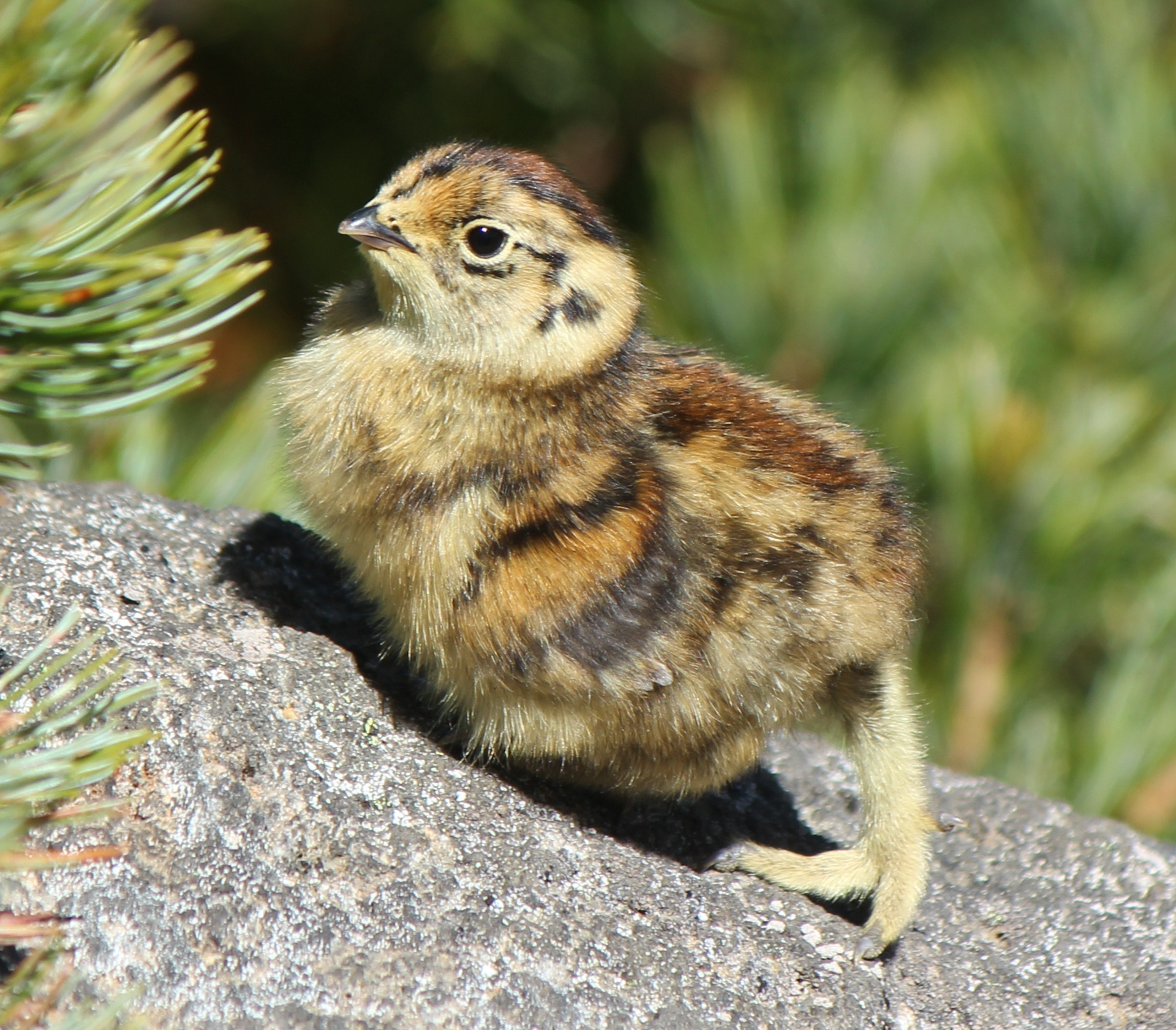 Juvenile of Rock Ptarmigan (Lagopus muta japonica), in Mount Ontake, Kiso town, Nagano prefecture, Japan.